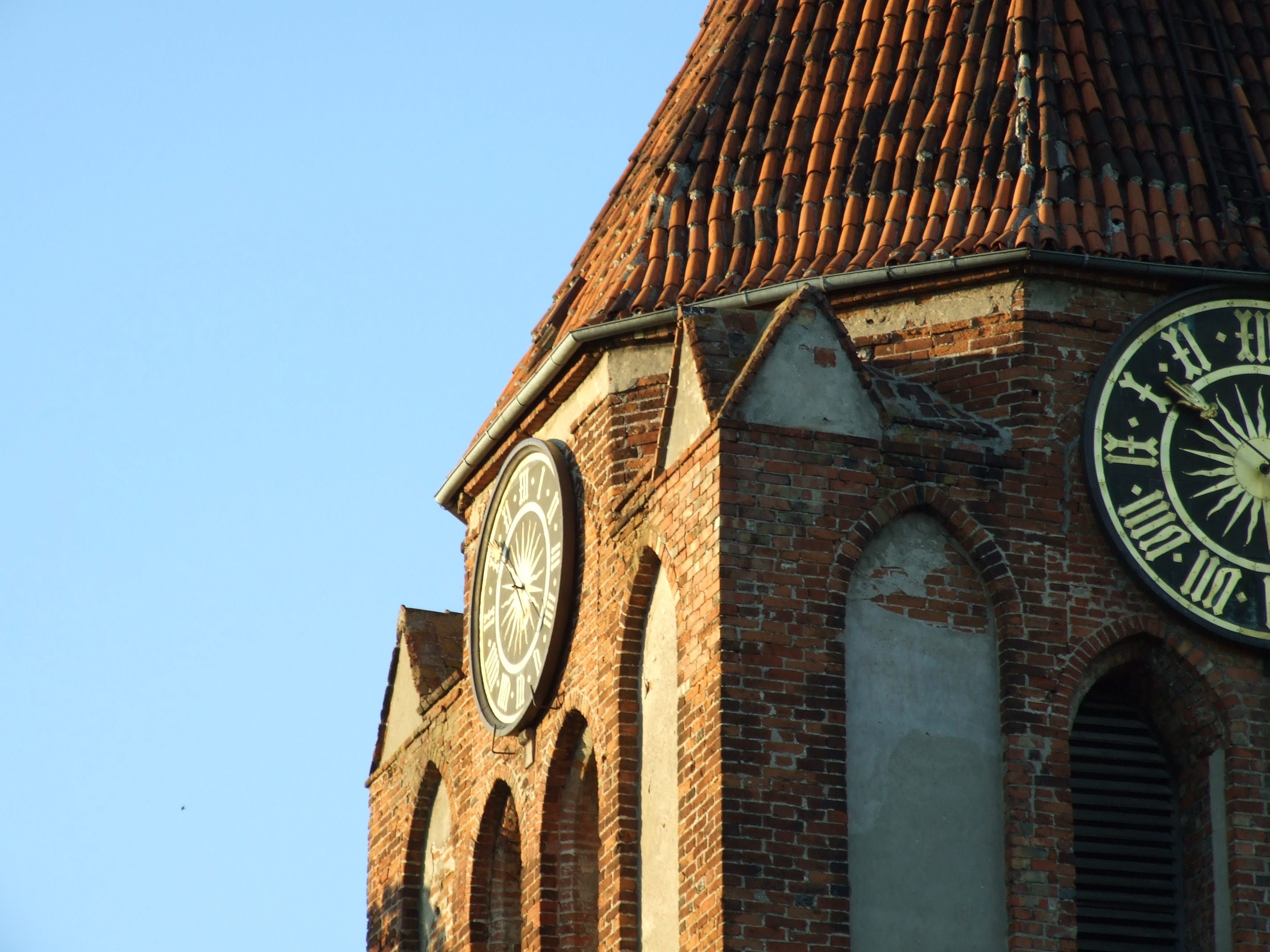 Closeup view of st. Cross church tower in Pruszcz Gdański, Pomeranian voivodeship, Poland